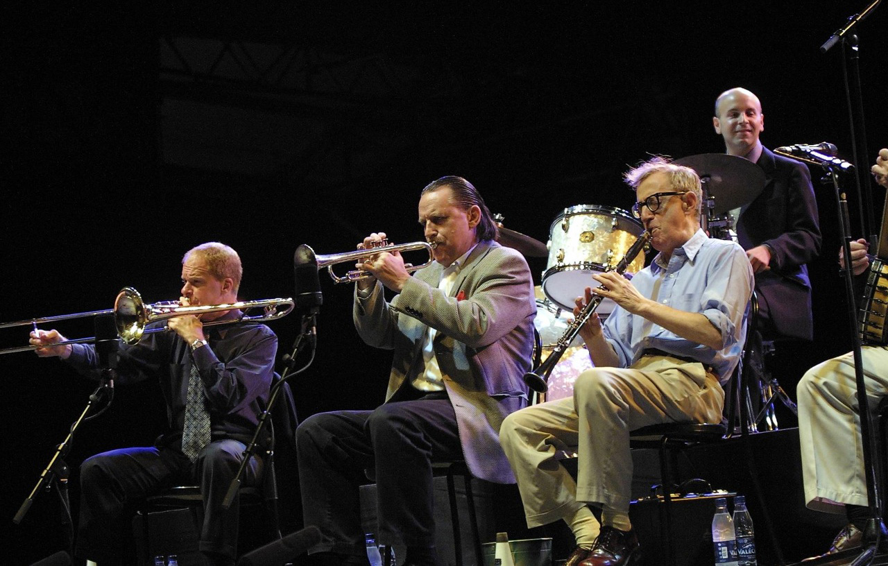 From flickr page: Woody Allen Band Performing at The Vienne Jazz Festival 2003, (left to right) Jerry Zigmont, Simon Wettenhall and Woody Allen